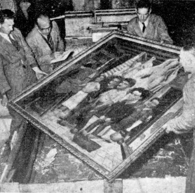 Collection of French contemporary paintings arriving at the National Art Gallery, Adelaide 1953. Text accompanying the picture: NATIONAL ART GALLERY ATTENDANTS unload one of the paintings in the controversial exhibition of contemporary French art today.